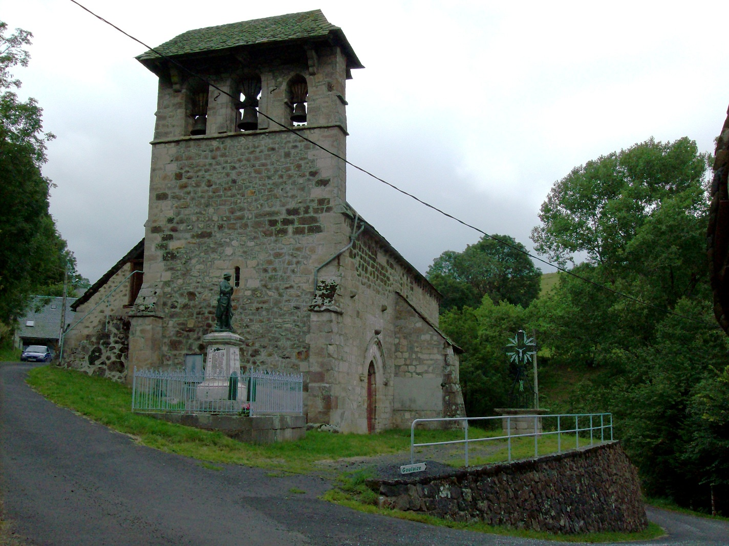 Church of Saint-Clément (Canton of Vic-sur-Cère, Département Cantal, Auvergne, France).